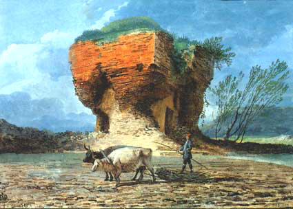 Dipinto della torre rossa